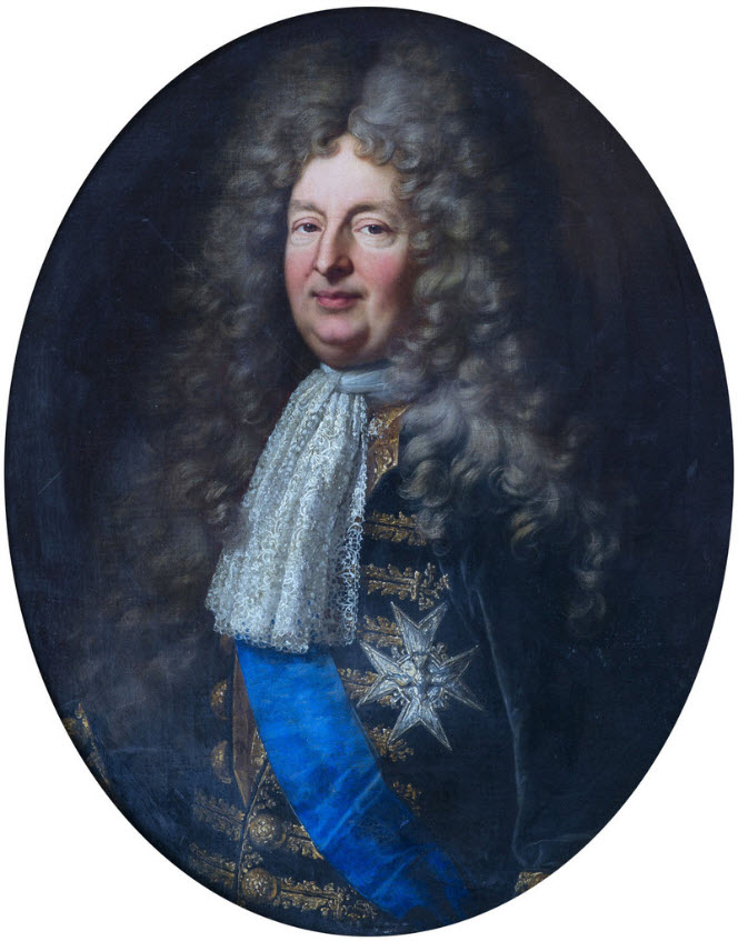 Portrait of Jean-Antoine de Mesmes 4th son of Jean-Jacques de Mesmes